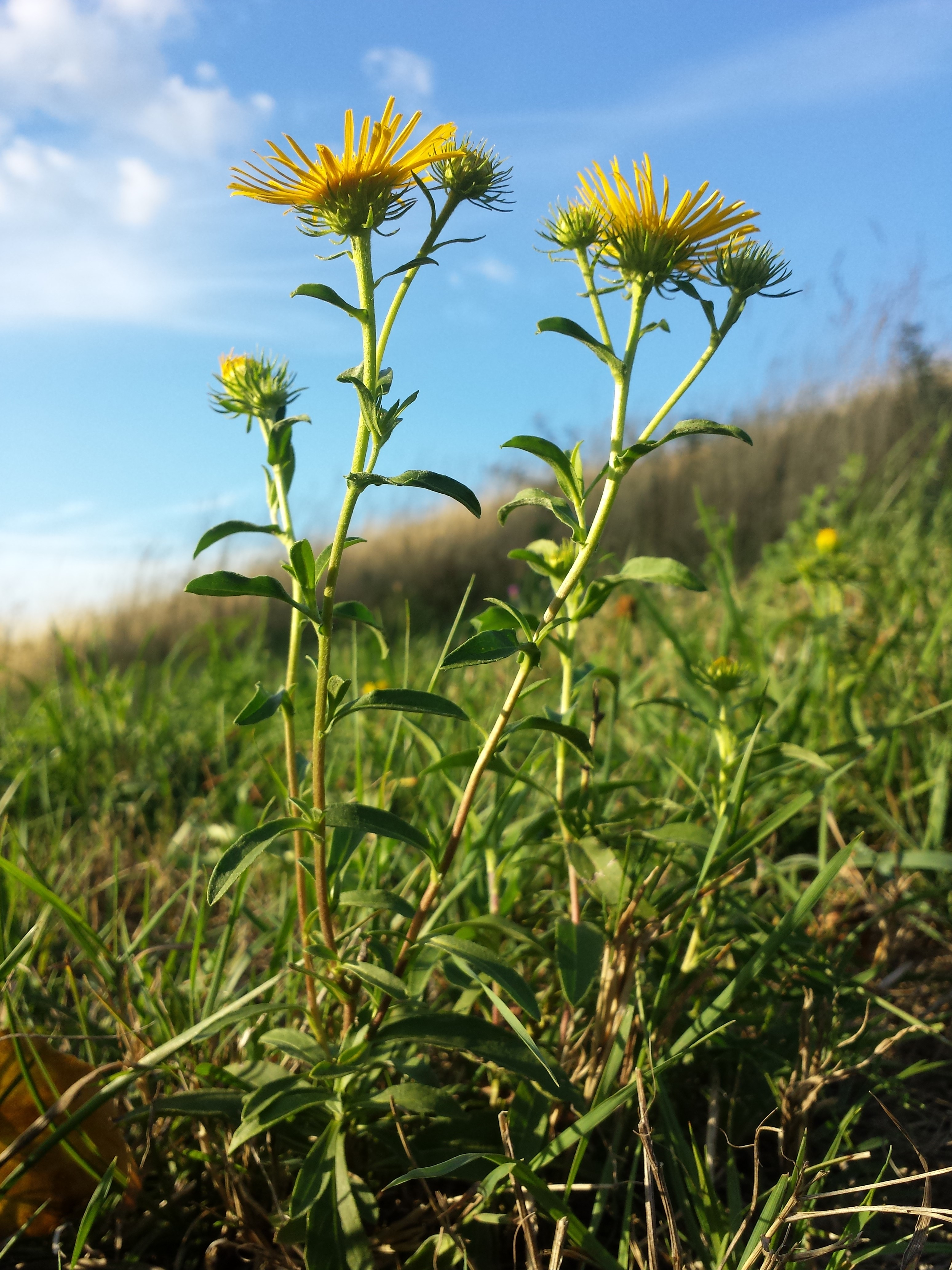 Habitus Taxonym: Inula britannica ss Fischer et al. EfÖLS 2008 ISBN 978-3-85474-187-9 Location: Neue Donau, Vienna-Floridsdorf - ca. 160 m a.s.l. Habitat: ruderal meadows